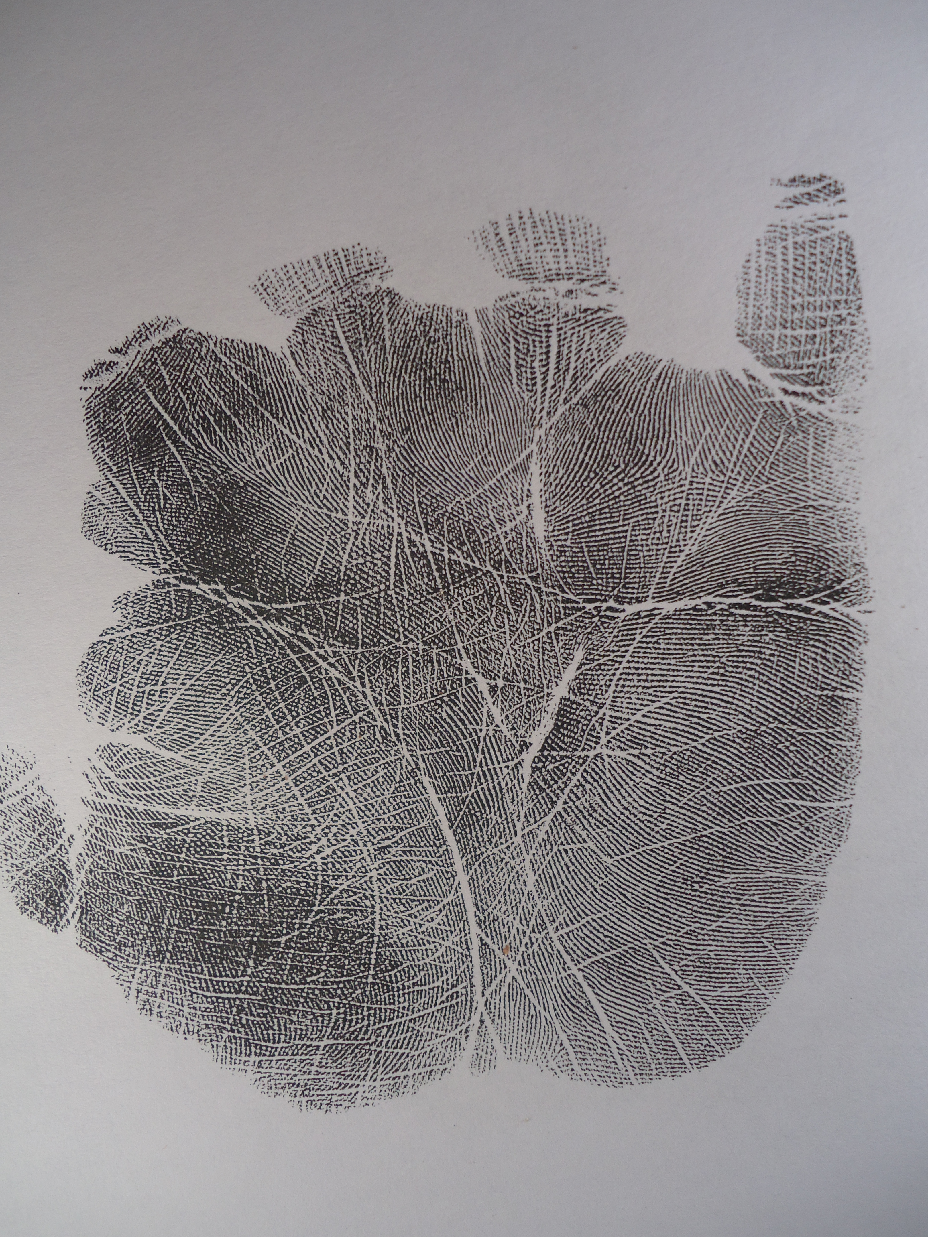 Female right palm print taken fingerprint ink